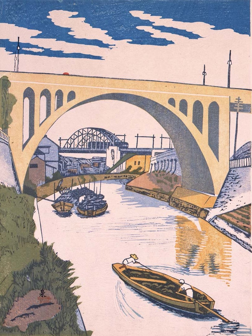 Woodcut Kanda